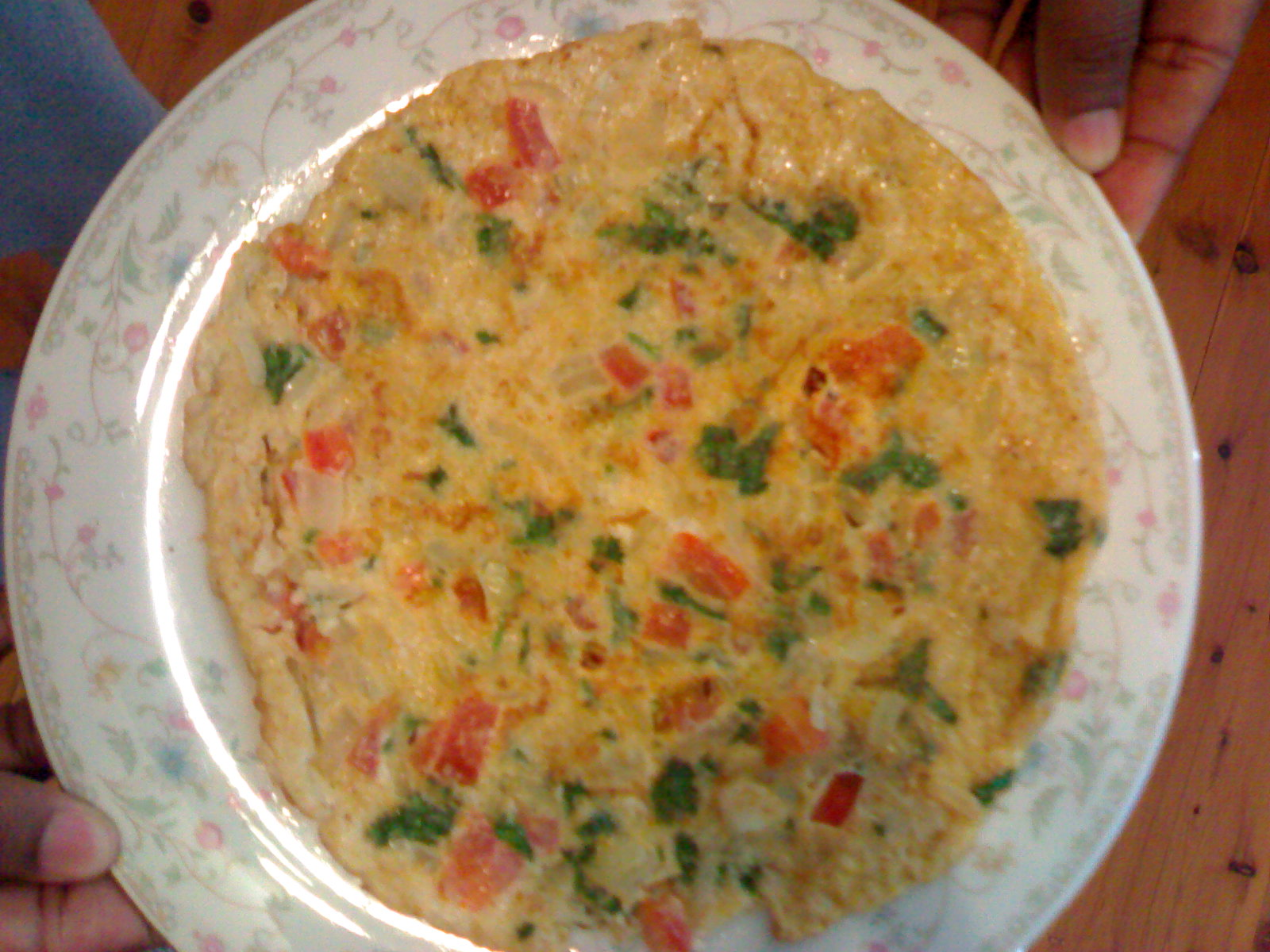 Indian omelette